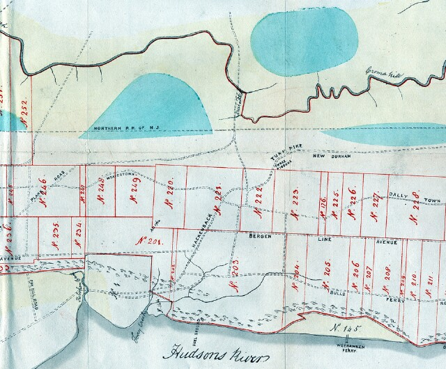 Found in History of Land Titles in Hudson County, New Jersey 1609-1871, by Charles H. Winfield. Published in 1872.